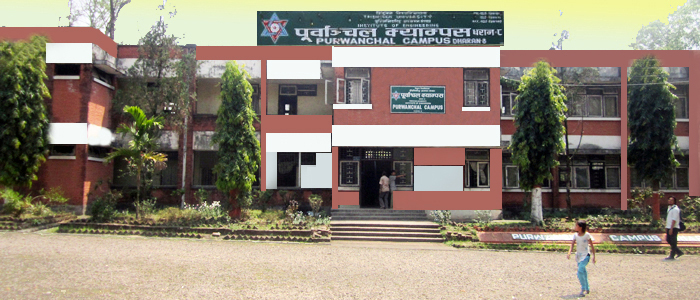 Administration Block of Purwanchal Campus